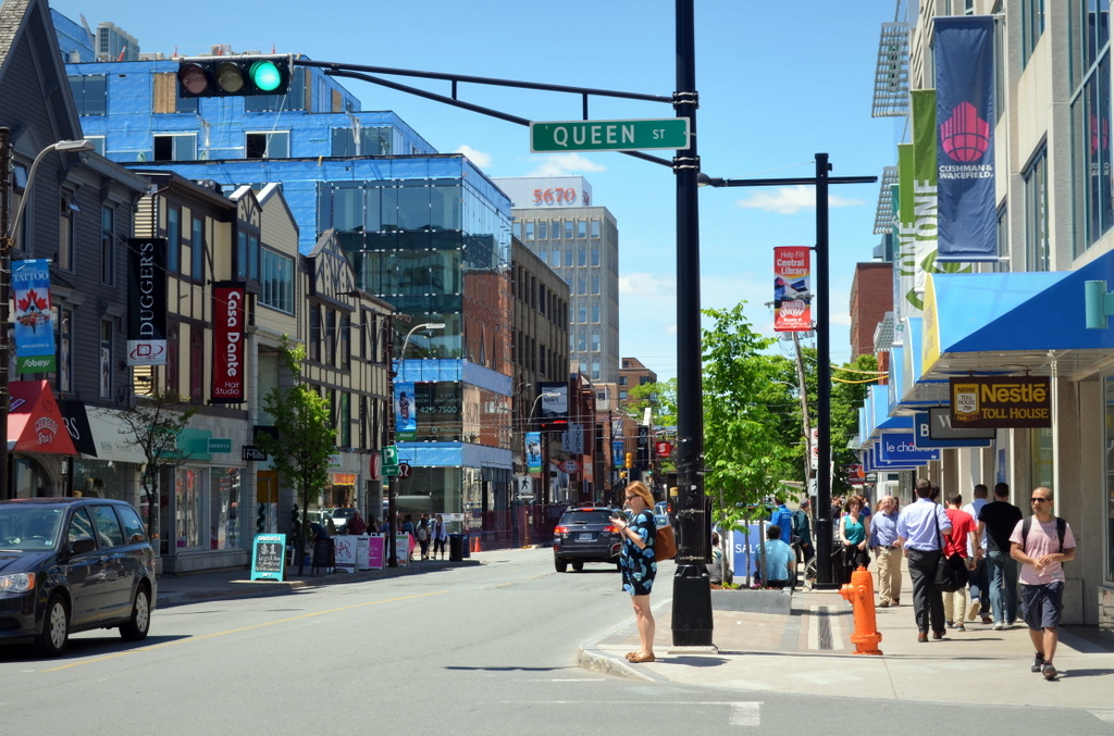 Spring Garden Road (looking west) at the intersection with Queen Street in Halifax, Nova Scotia, Canada.